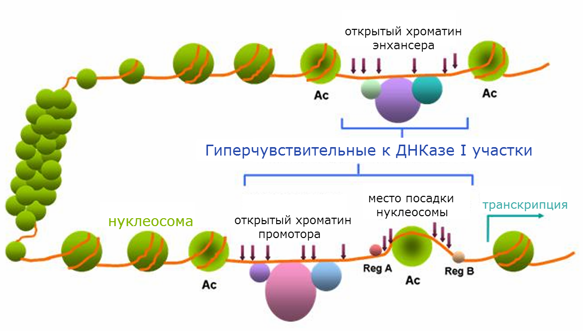 DNase I hypersensitive sites within chromatin